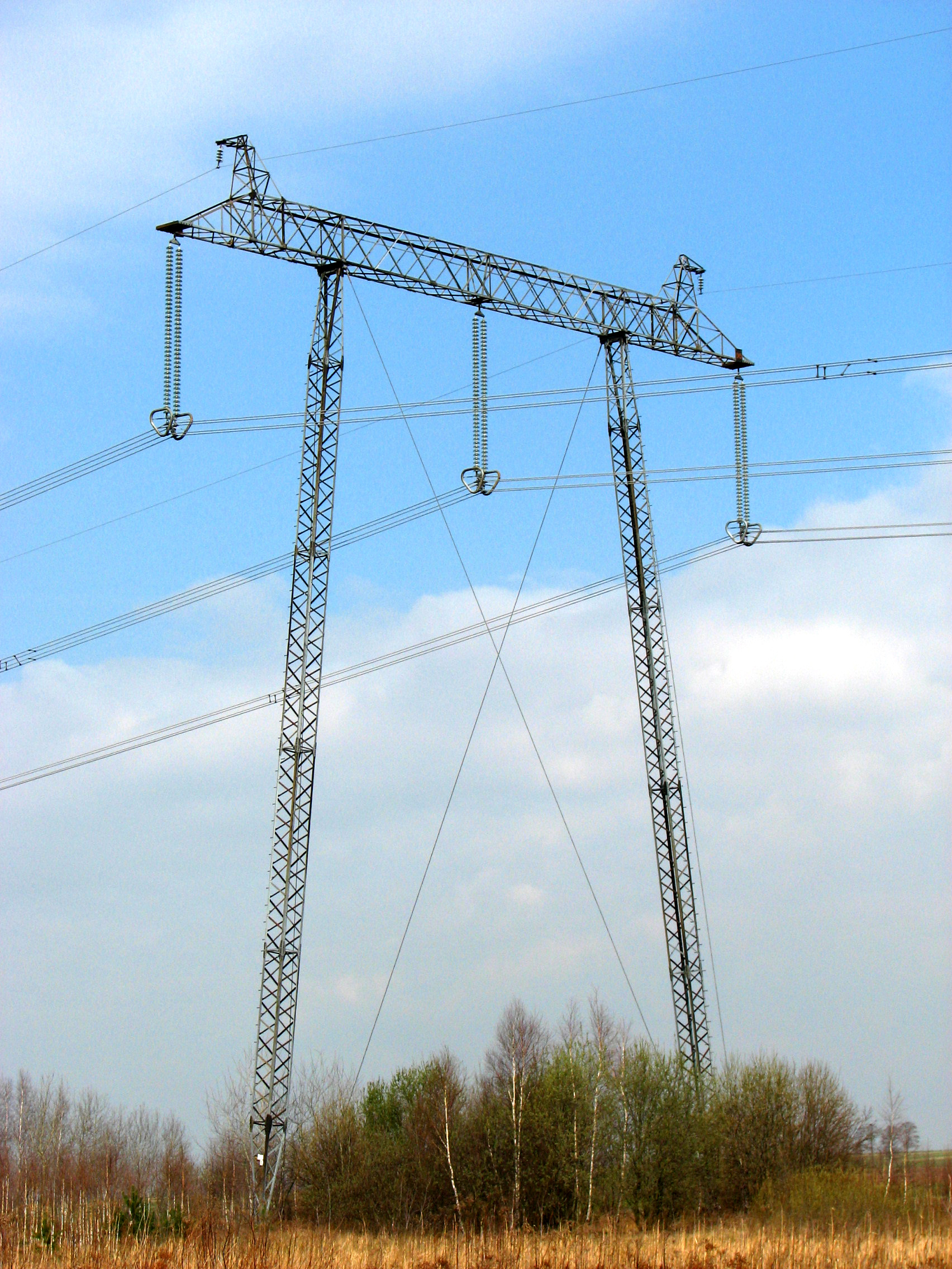 Rzeszów/Widełka–Khmelnytskyi 750 kV powerline: transmission tower near the power line crossing of the national road DK19 in Nienadówka (at the village's border with Stobierna and Medynia Głogowska) in Poland.